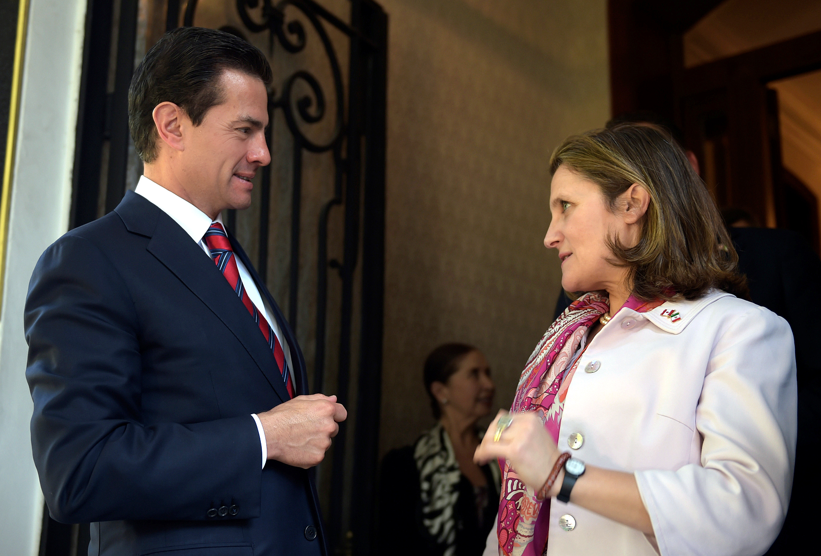 Enrique Peña Nieto with Chrystia Freeland in Mexico. (JCH_5041)